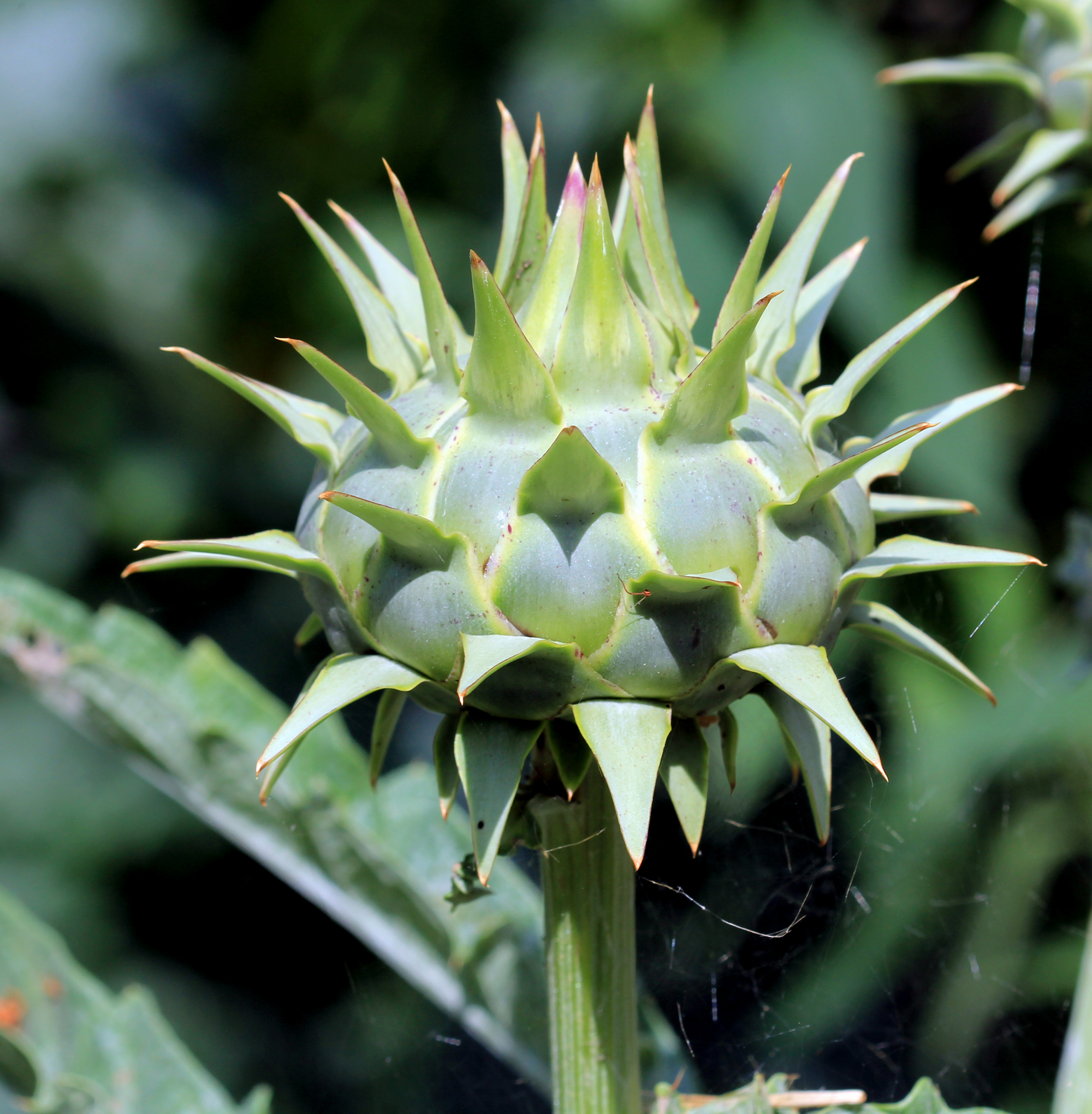 Bud of plant Cardoon (Cynara cardunculus) from Botanical Garden of Charles University in Prague, Czech Republic